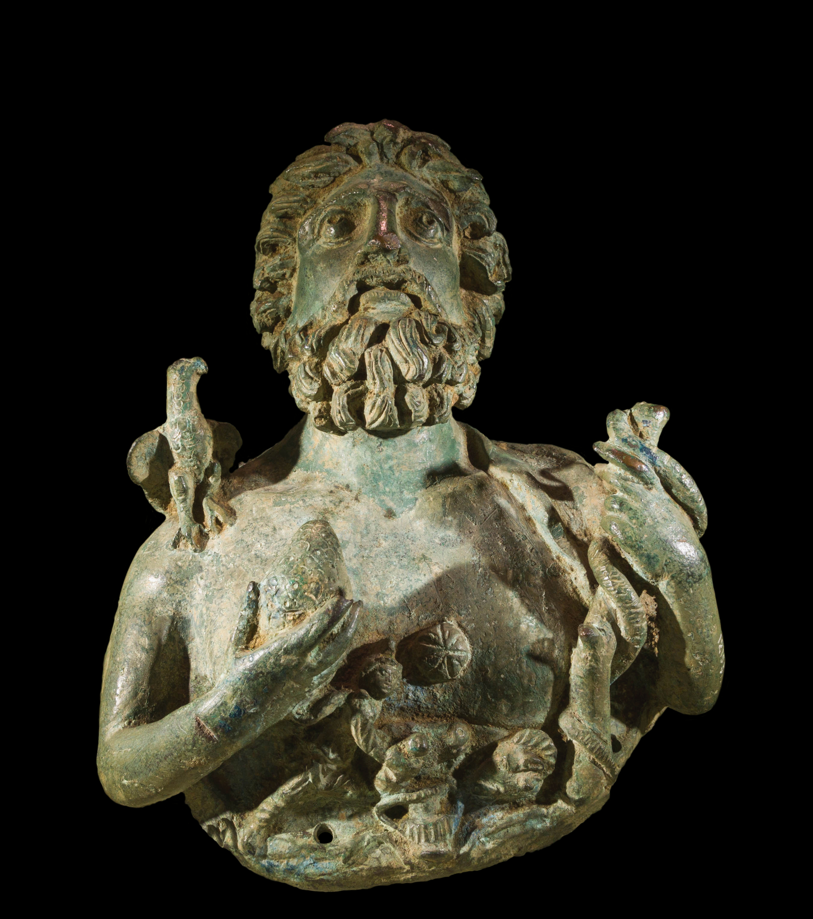 Bronze bust of god Sabazios, 2nd-century CE. Musei Vaticani, temporary exhibition (aug 2013) in Colosseum, Rome, Italy.